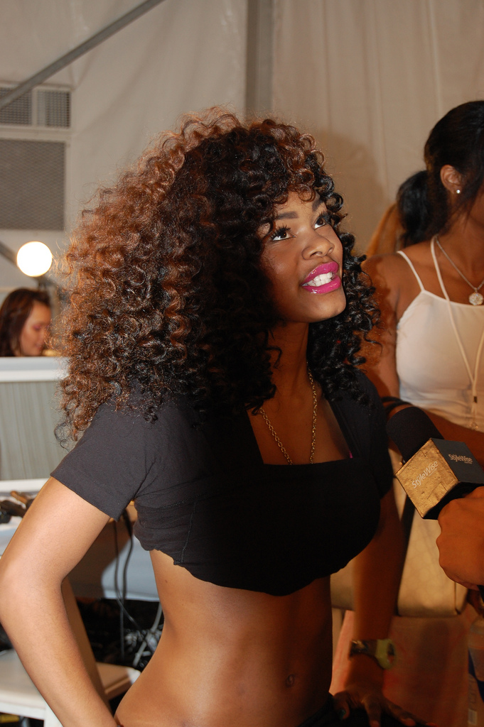 Teyana Taylor backstage at a Diesel fashion event on July 17, 2008